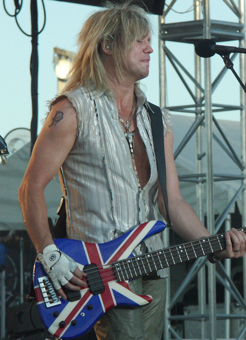 Taken by Weatherman90 at North Dakota State Fair Def Leppard Concert, 2007-07-26